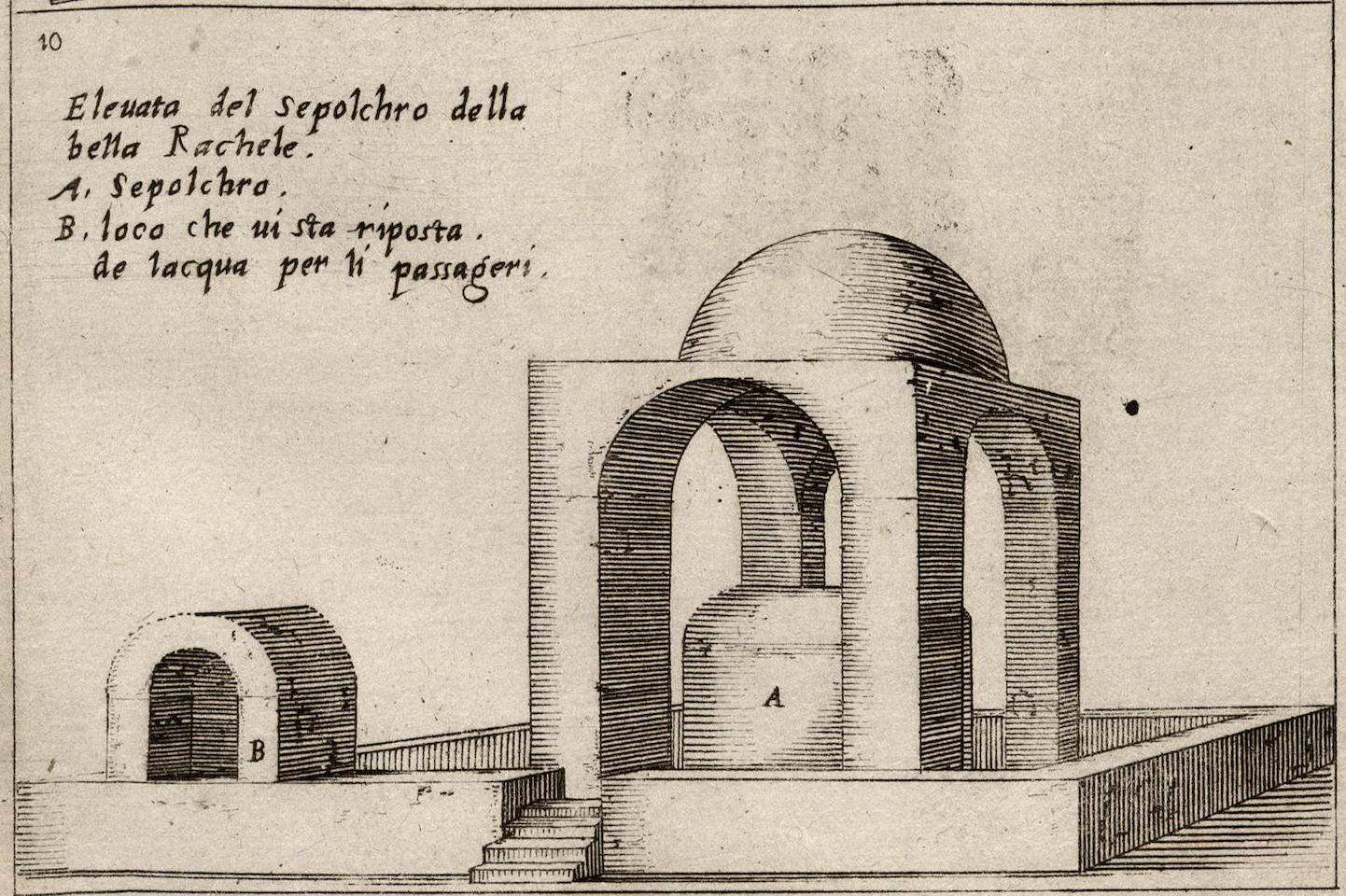 Bernardino Amico of Gallipoli sketch of Rachel's tomb 1610